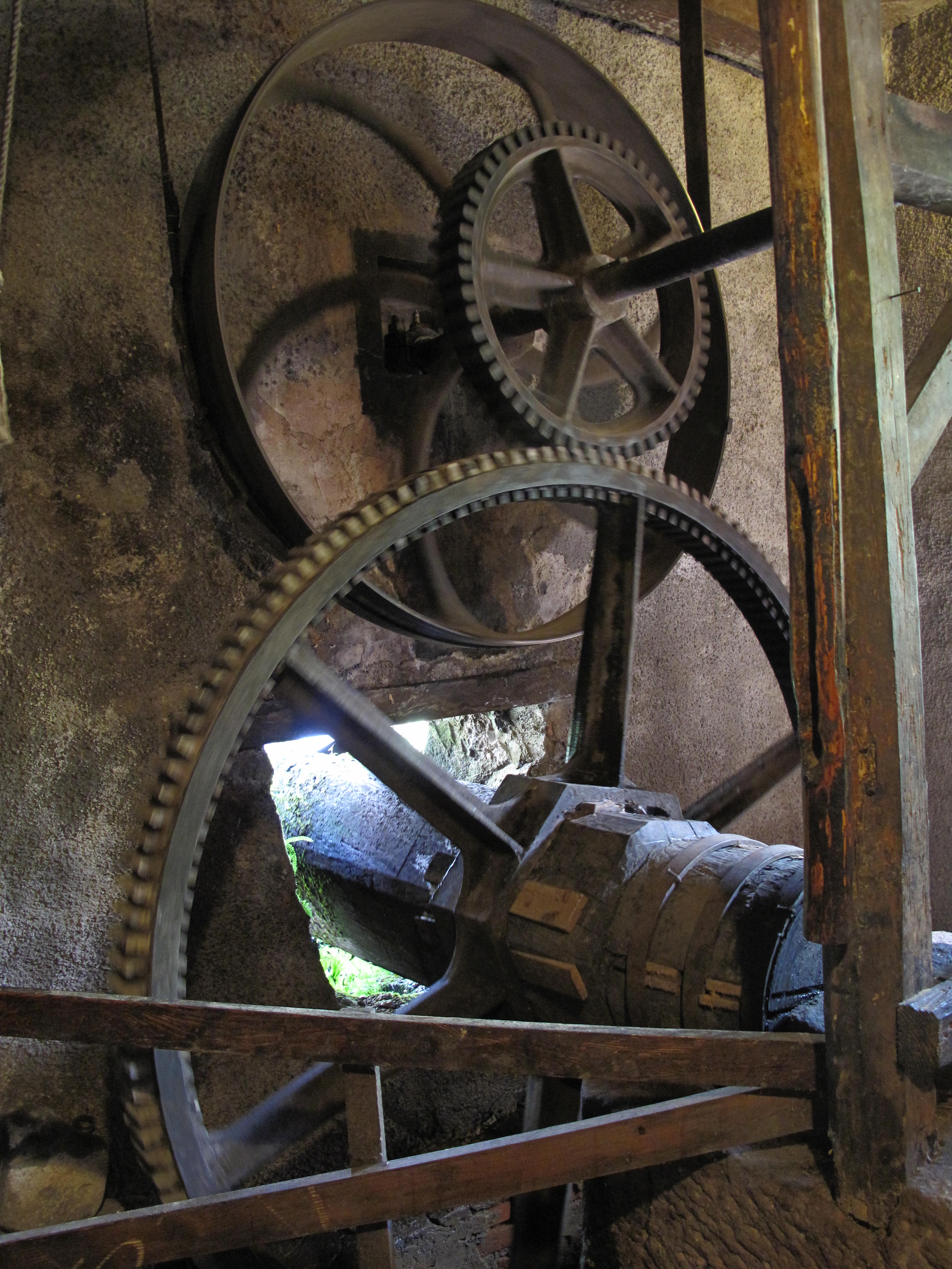 Cog wheels of the mill of Storckensohn (Haut-Rhin, France).